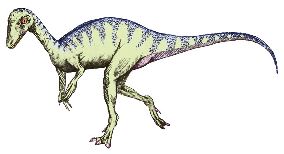 Sketch of Eoraptor lunensis, an early Triassic dinosaur from Argentina.